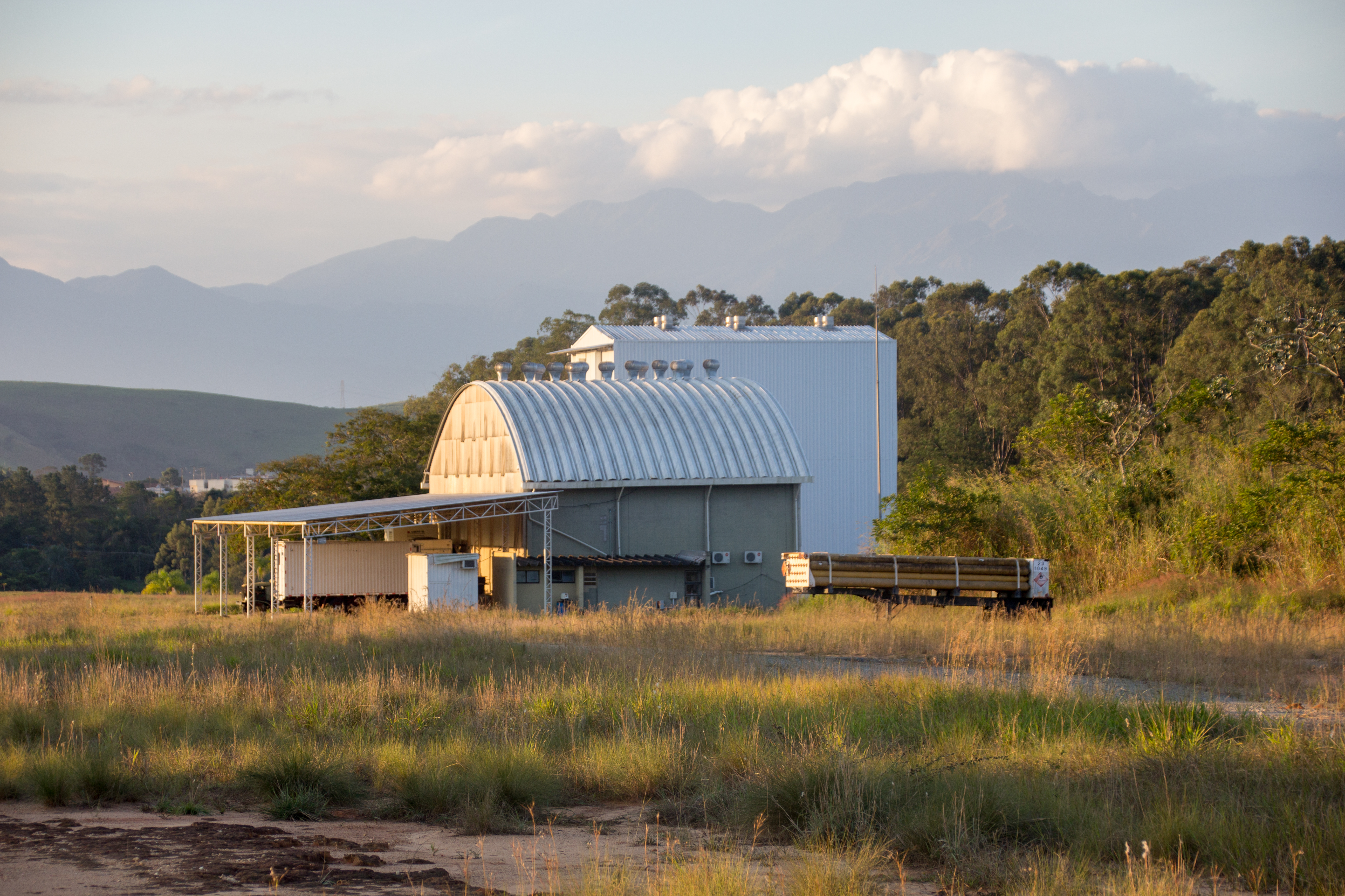 INPE site, Cachoeira Paulista, Brazil